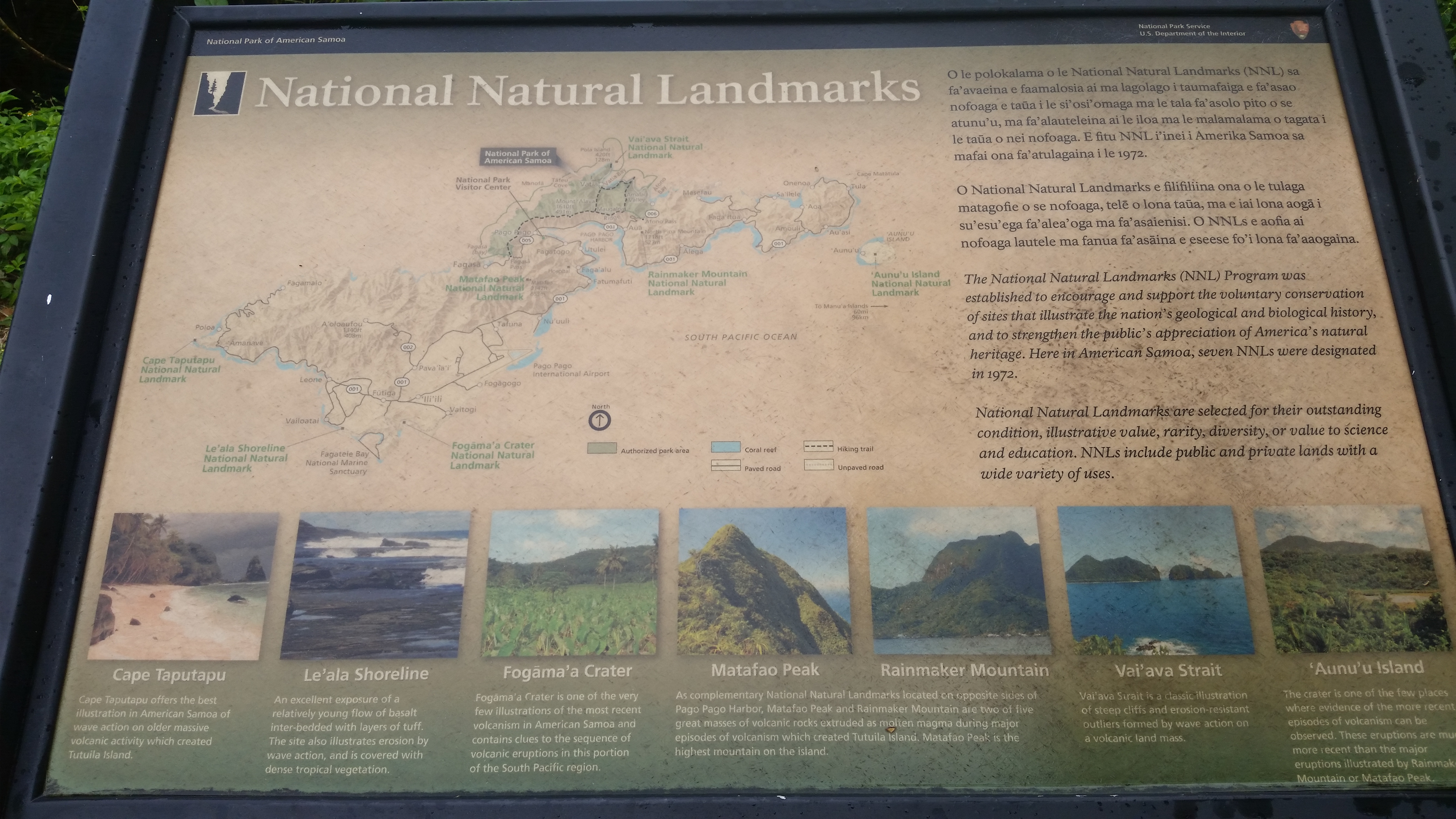 American Samoa National Park sign for natural landmarks